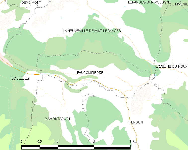 Map of French municipality Faucompierre